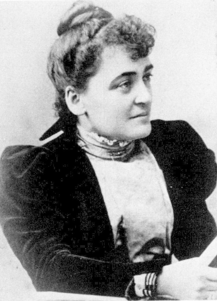 Swedish author, politician and educator Cecilia Milow (1856-1946)